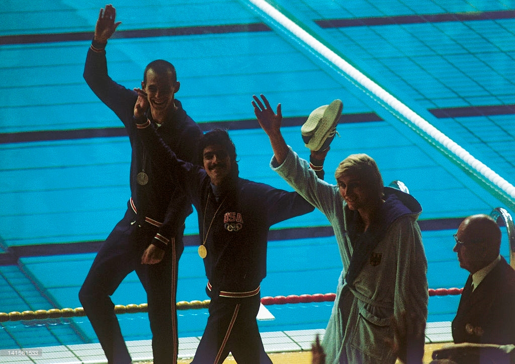 The two US swimmers Mark Spitz and Steve Genter, and the German Werner Lampe greet the public after having received the medals of the final of 200 metres freestyle. Munich (Germany), August 29, 1972. This is the third of the seven final races of Spitz at the Olympic games. He won them all setting a world record